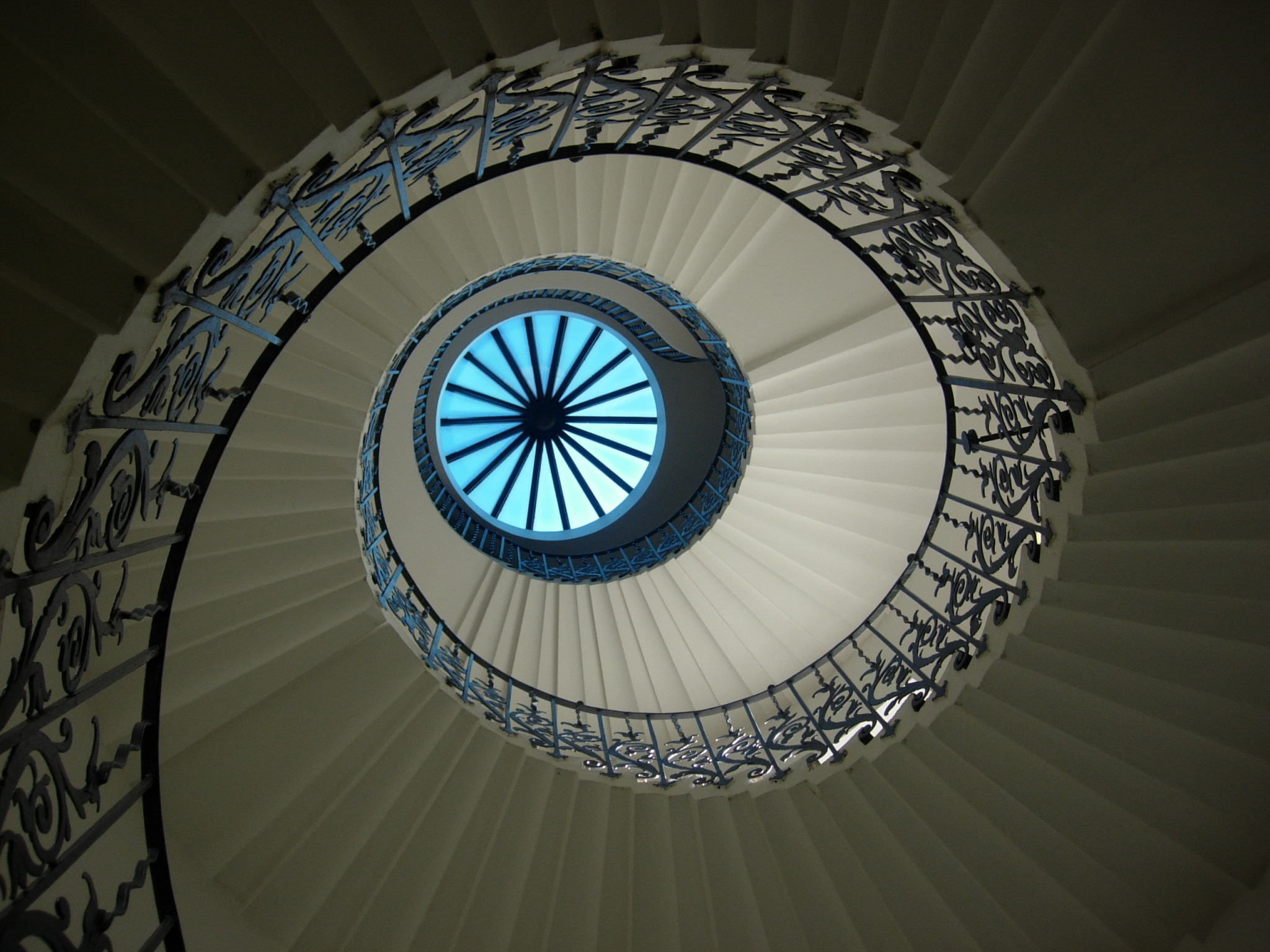 The Tulip Stairs and lantern at the Queen's House in Greenwich by Inigo Jones. The first centrally unsupported stairs constructed within the first wholly classical building in England.